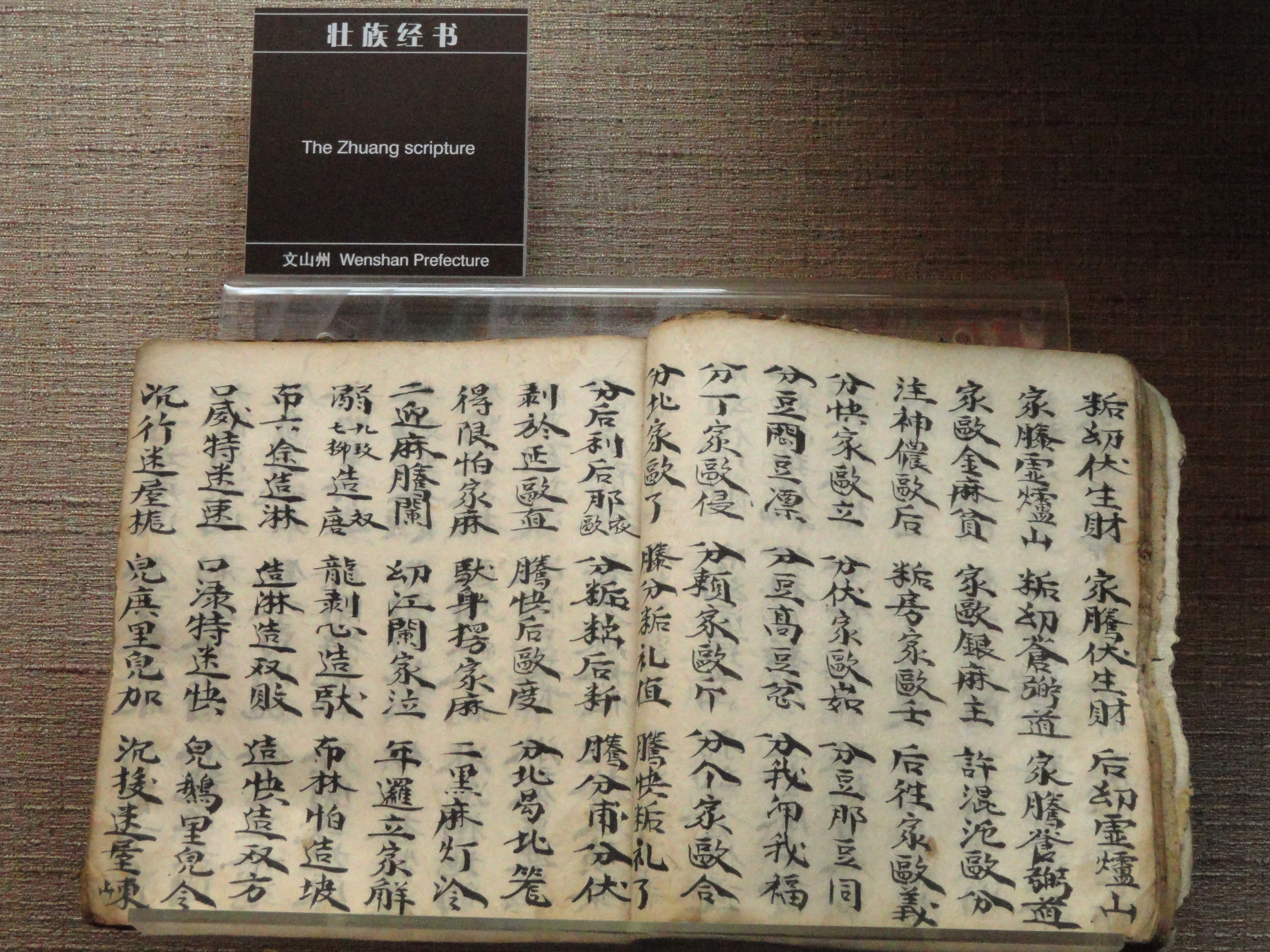 Zhuang religious manuscript, written in Sawndip. Manuscripts / writing systems in the Yunnan Nationalities Museum, Kunming, Yunnan, China.